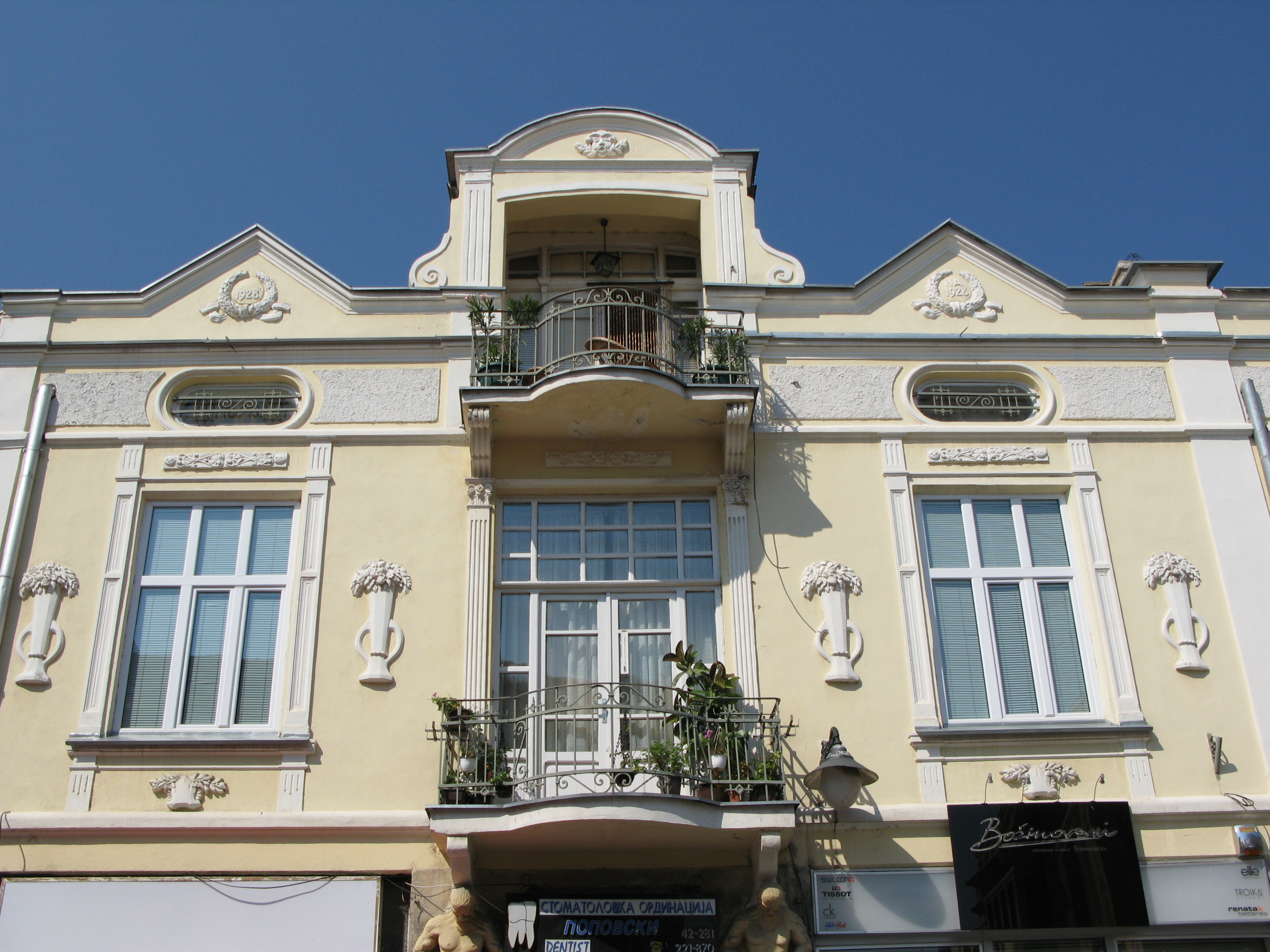 Old palace (dating in time when Bitola was important consular town of Otoman empire) in promenade. Bitola, Macedonia.